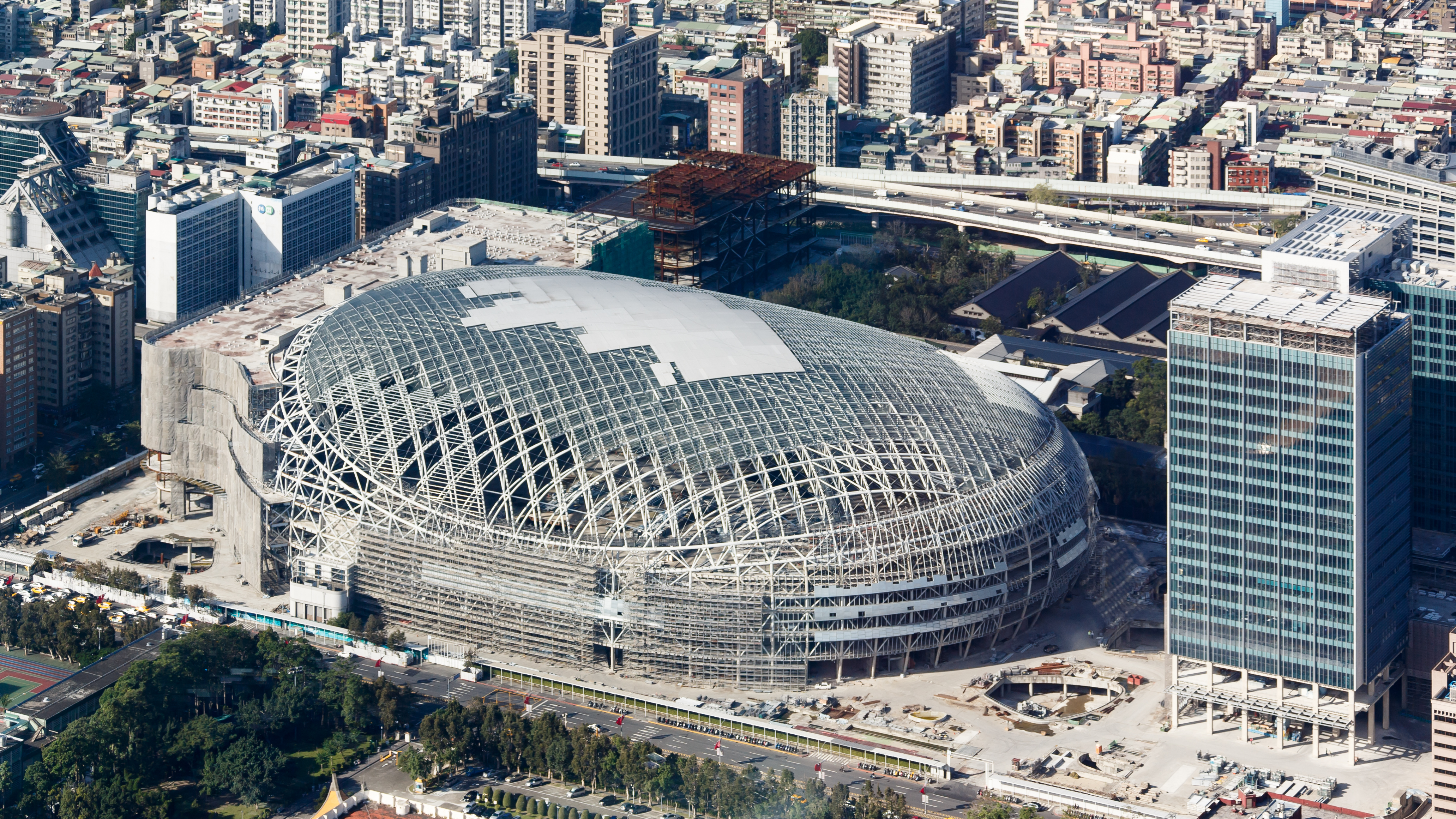 Taipei, Taiwan: The Taipei Dome